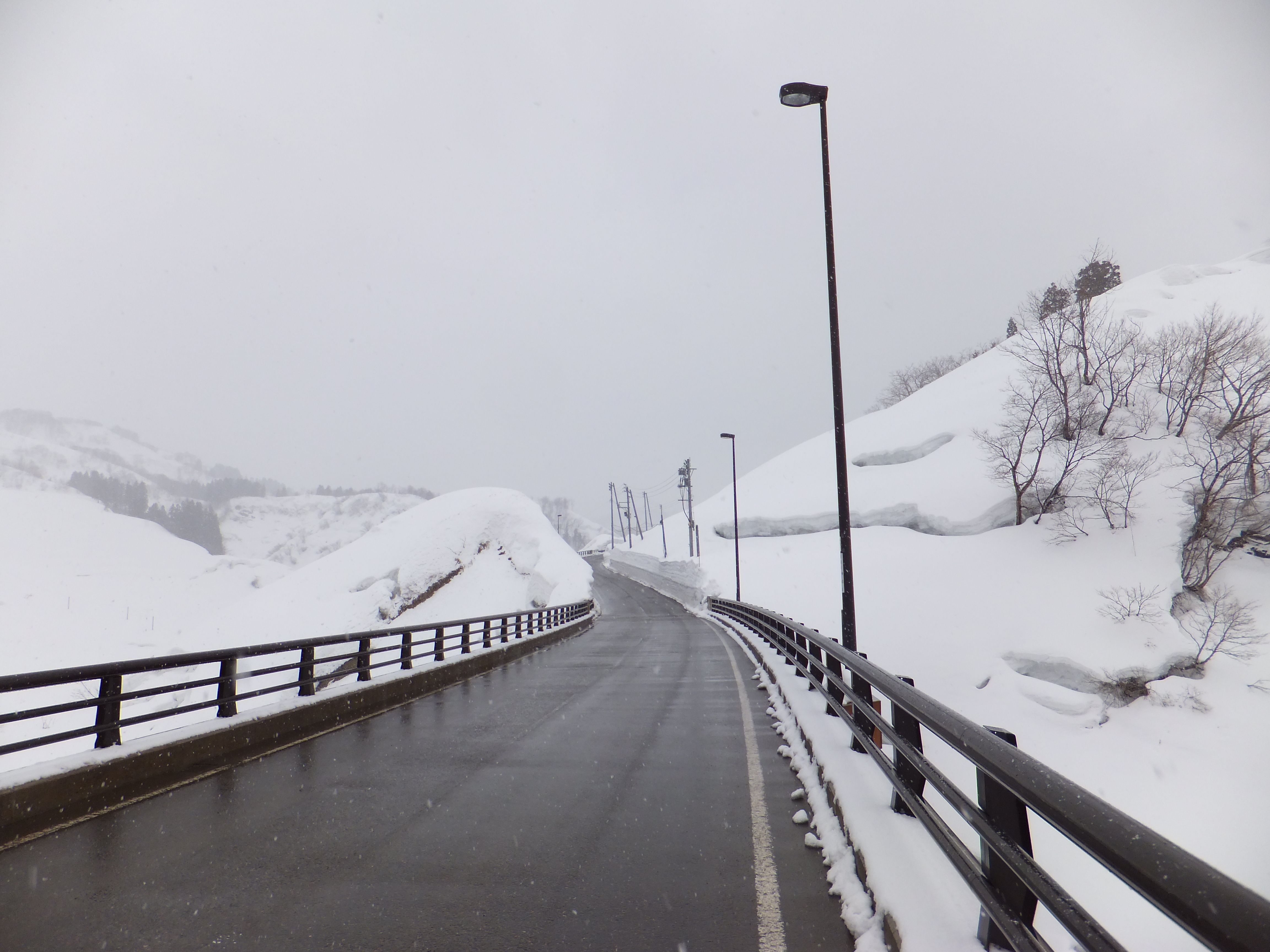 Yamakoshitanesuhara, Nagaoka, Niigata Prefecture 947-0201, Japan